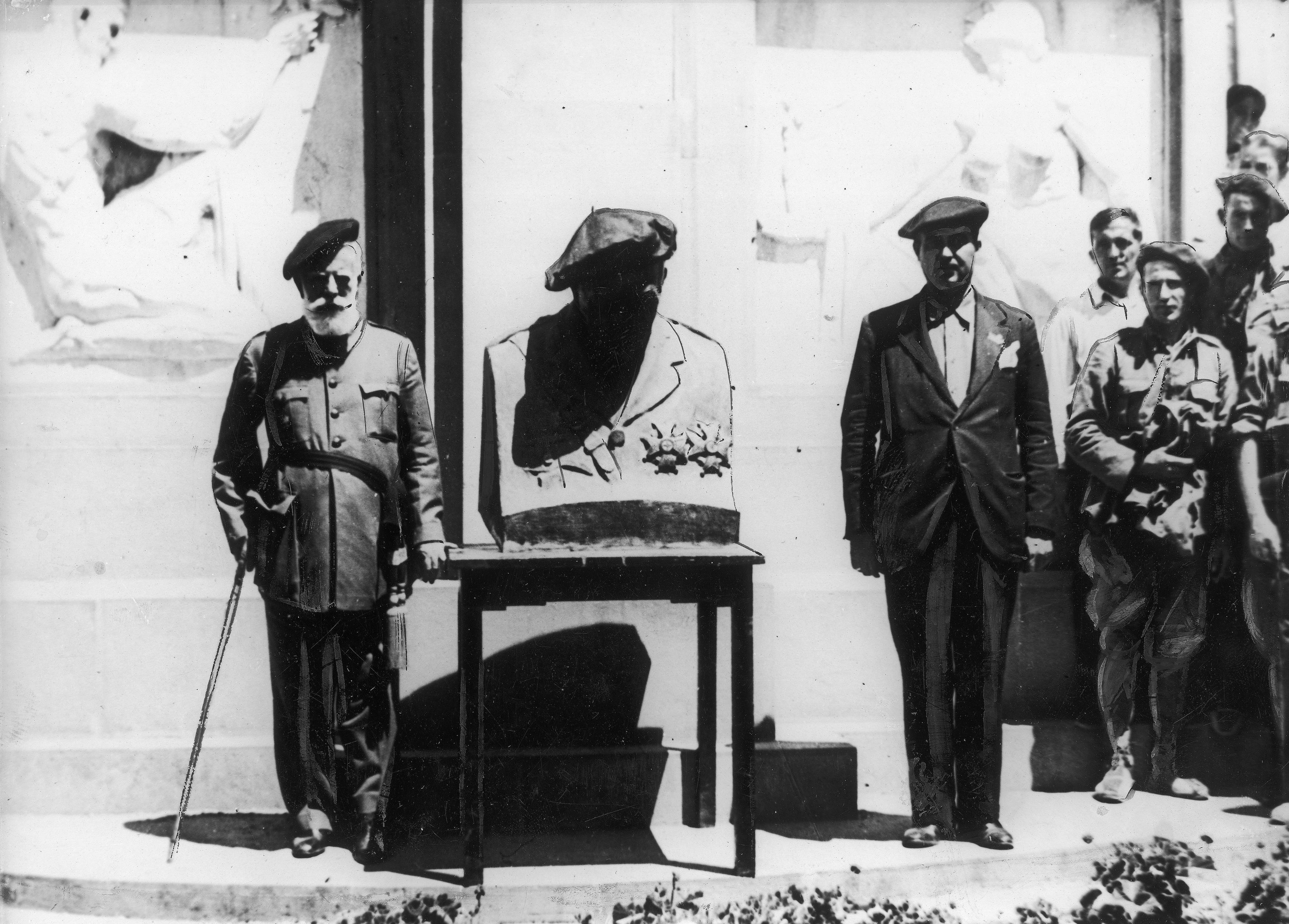 Miguel Cabanellas Ferrer (left) reveals the bust of deceased General José Sanjurjo, Burgos.